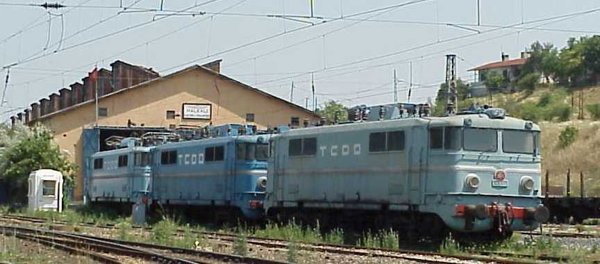 All three E4000s dumped at Halkali.